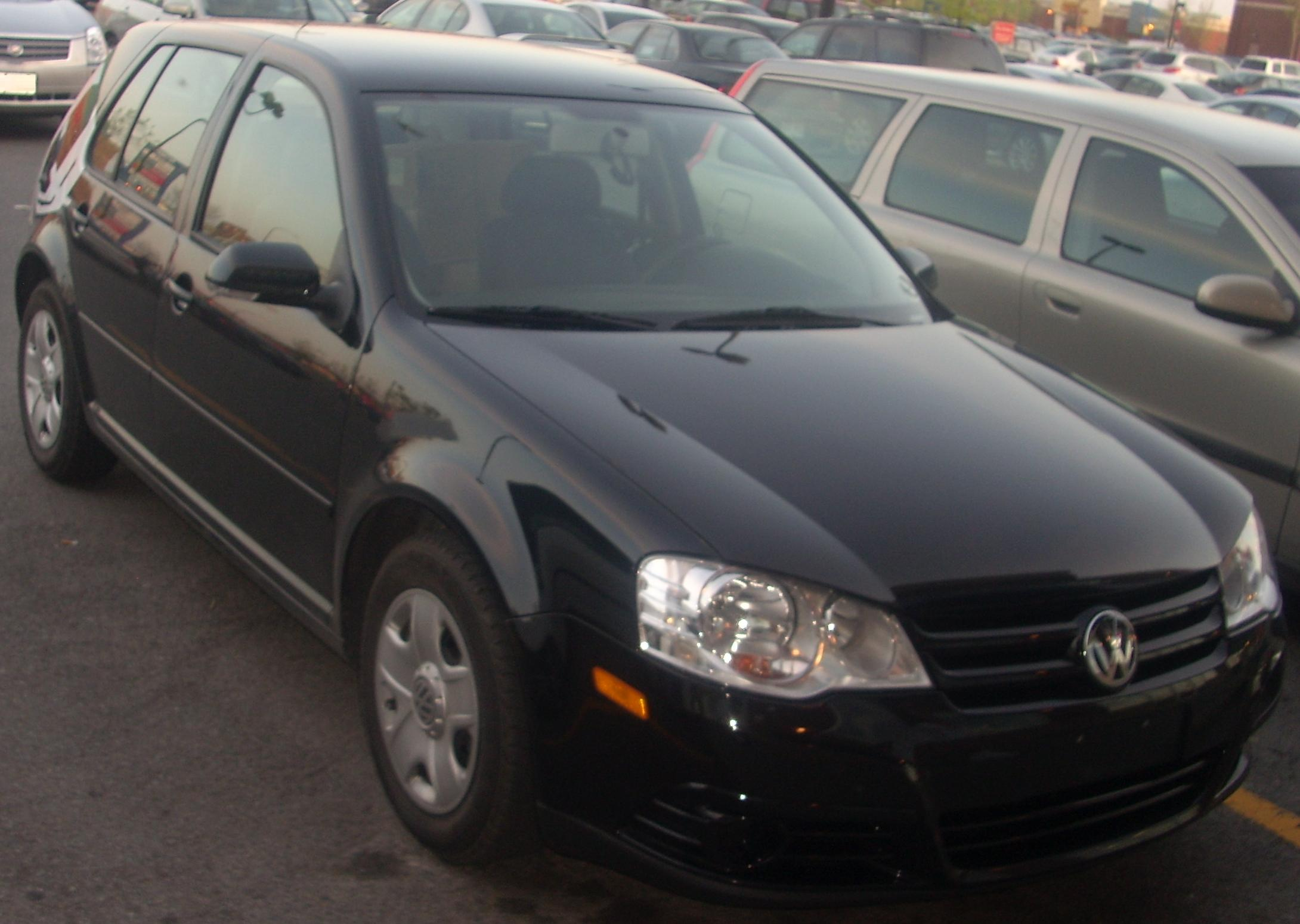 2008-present Volkswagen City Golf photographed in Montreal, Quebec, Canada.